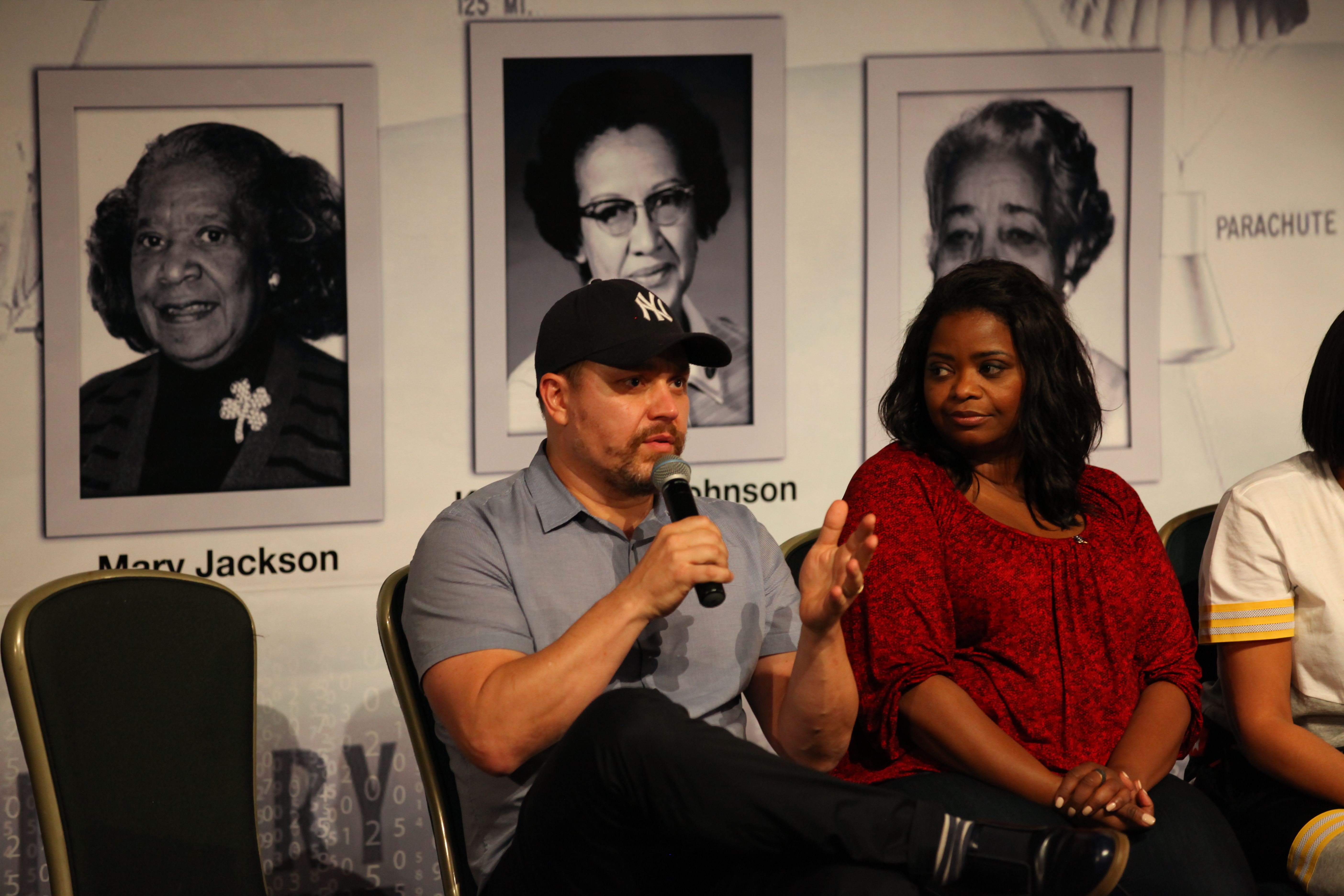 In the IMAX Theater of the Kennedy Space Center Visitor Complex Cast and crew members of the upcoming motion picture "Hidden Figures" participate in a question and answer session. From the left are Ted Melfi, writer and director of “Hidden Figures,” and Octavia Spencer, who portrays Dorothy Vaughan in the film. The movie is based on the book of the same title, by Margot Lee Shetterly. It chronicles the lives of Katherine Johnson, Dorothy Vaughan and Mary Jackson, three African-American women who worked for NASA as human "computers.” Their mathematical calculations were crucial to the success of Project Mercury missions including John Glenn’s orbital flight aboard Friendship 7 in 1962. The film is due in theaters in January 2017. Photo credit: NASA/Kim Shiflett NASA image use policy.